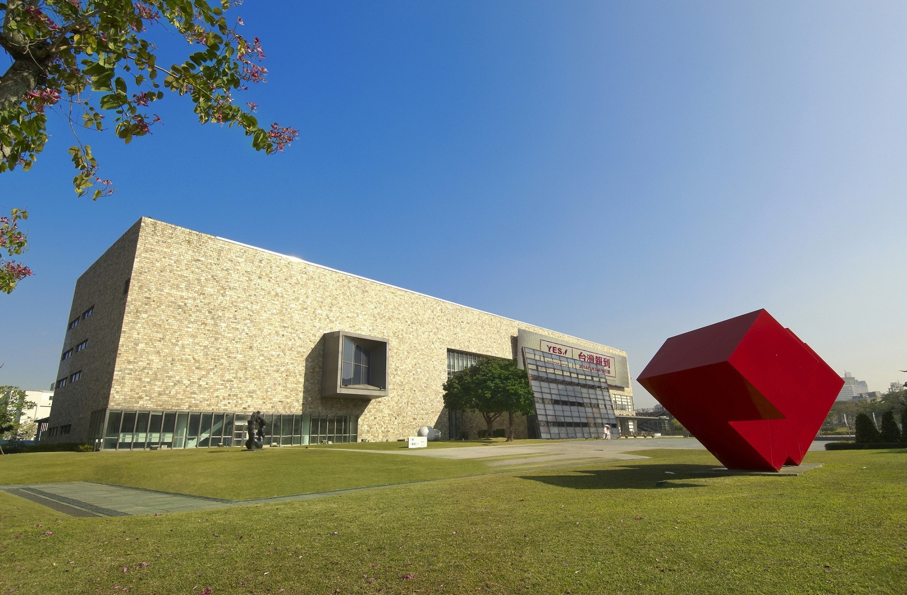 National Taiwan Museum of Fine Arts